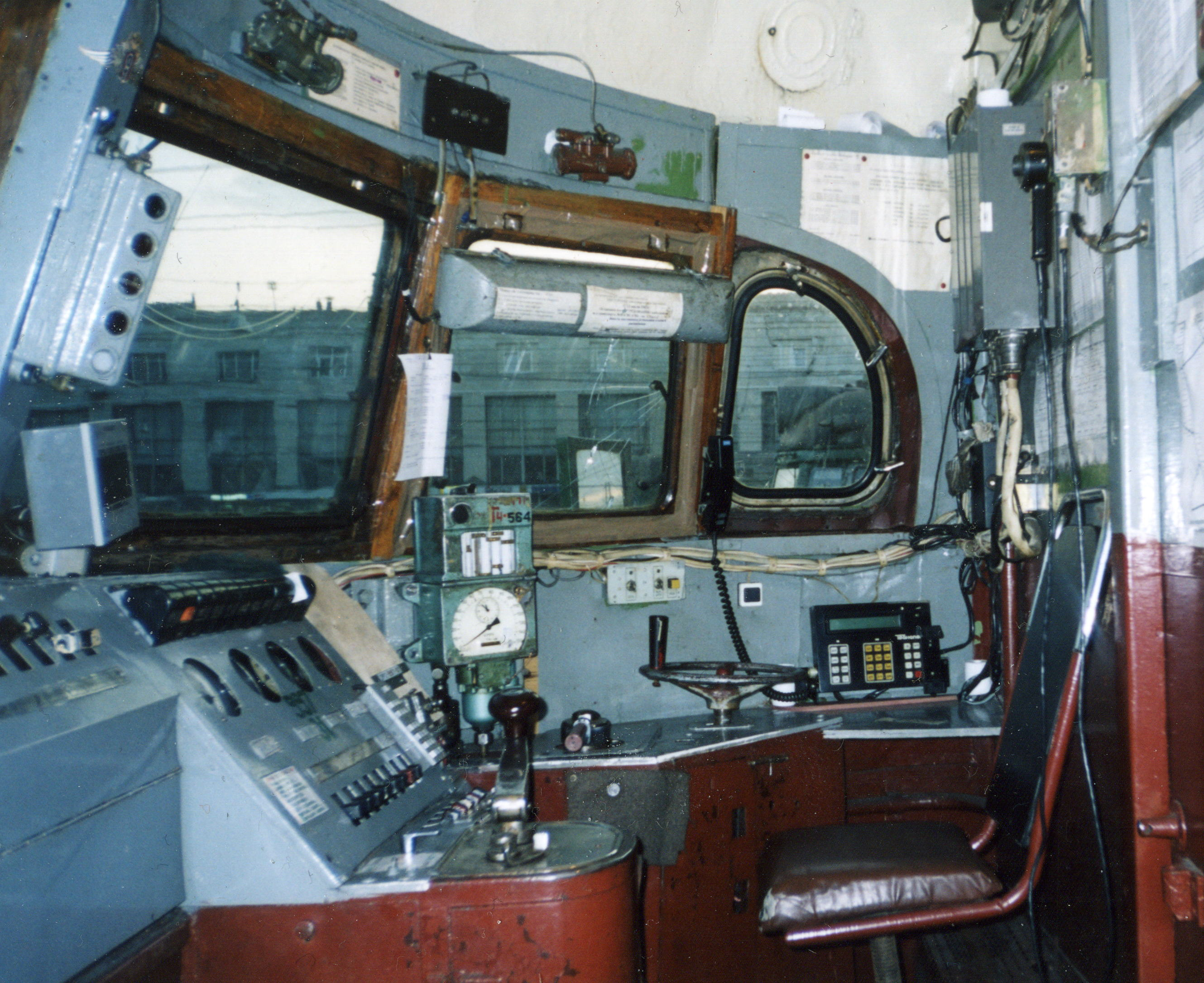 Cabin of electric train ER2-997